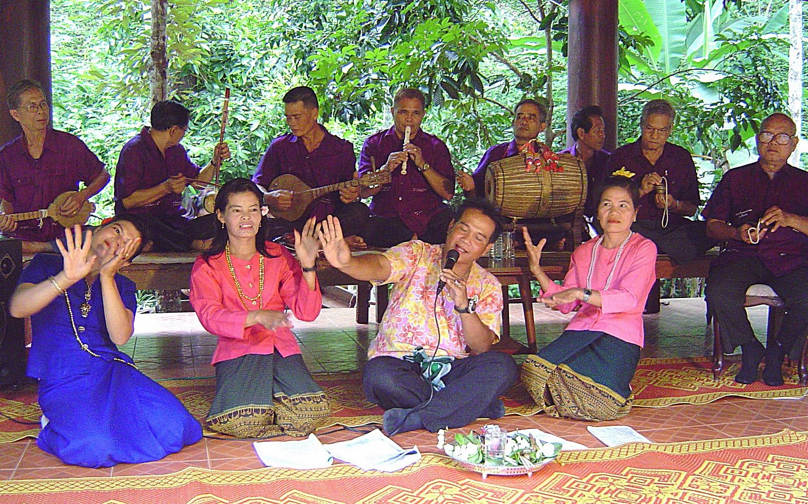 Traditional Laplae folk music. at Wat Kungtapao Local Museum, Ban Khung Taphao, Khung Taphao subdistrict, Mueang Uttaradit, Uttaradit Province, Thailand.) on December 2, 2012.